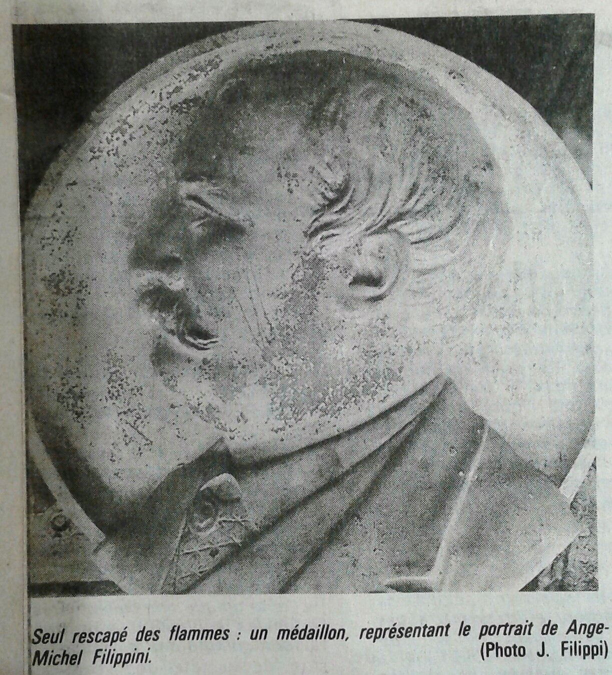 Medallion from the grave of Ange Michel Filippini, Governor General of French Indochina